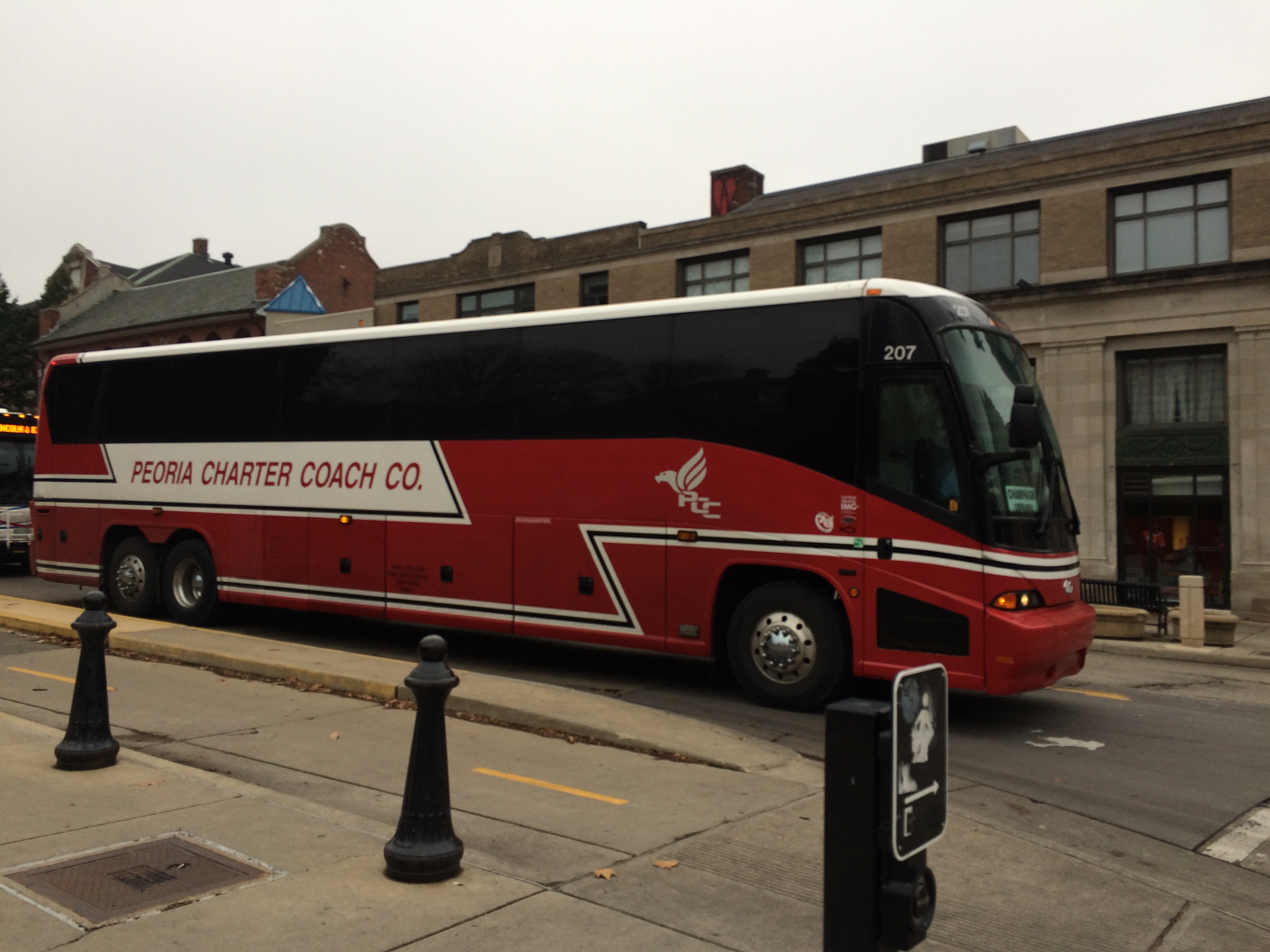 Peoria Charter Coach bus #207 northbound on Wright Street at Green Street on the Champaign/Urbana border